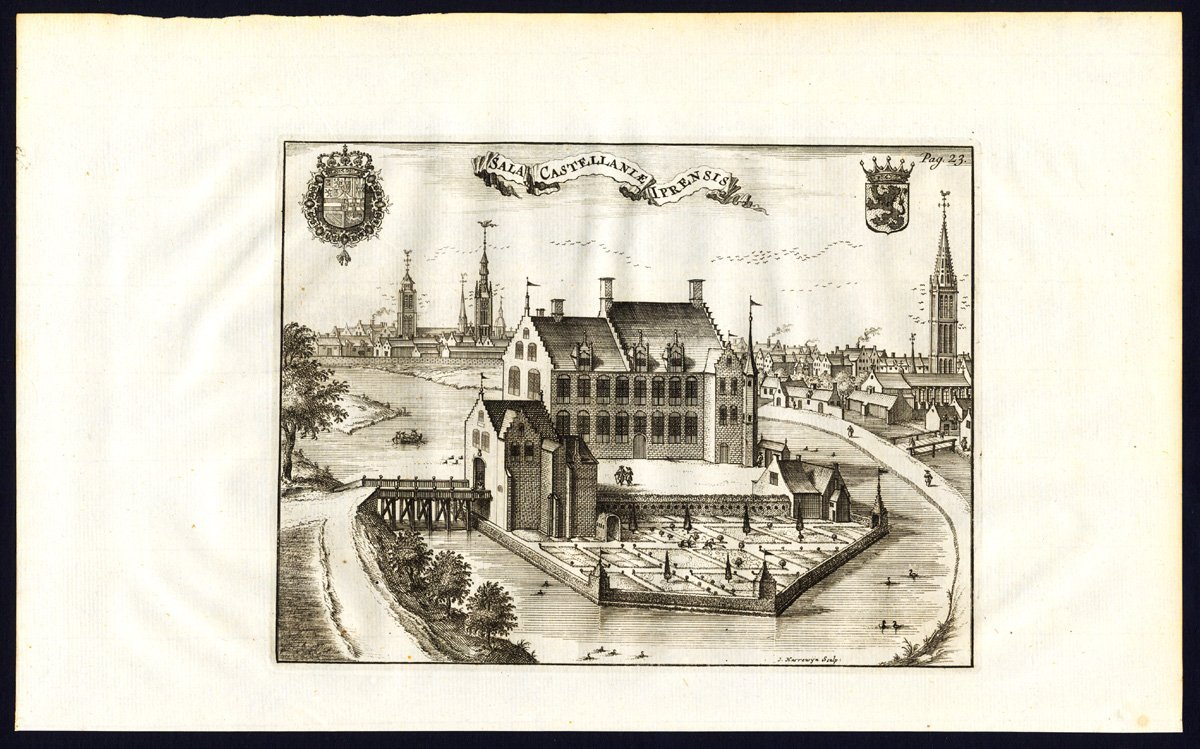 The former Zaalhof in Ypres (Belgium). Engraving by Jacobus Harrewijn used for the Chorographia Sacra Brabantiae of Antonius Sanderus.